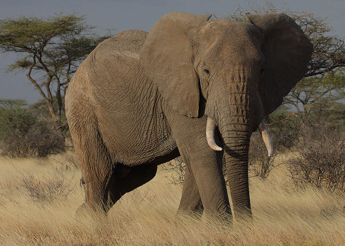 This old guy decided we had taken enough of his time up and with some deep rumbling and a thrust of his head he made it clear that it was time for us to move on! Image taken in Samburu NP, Kenya.